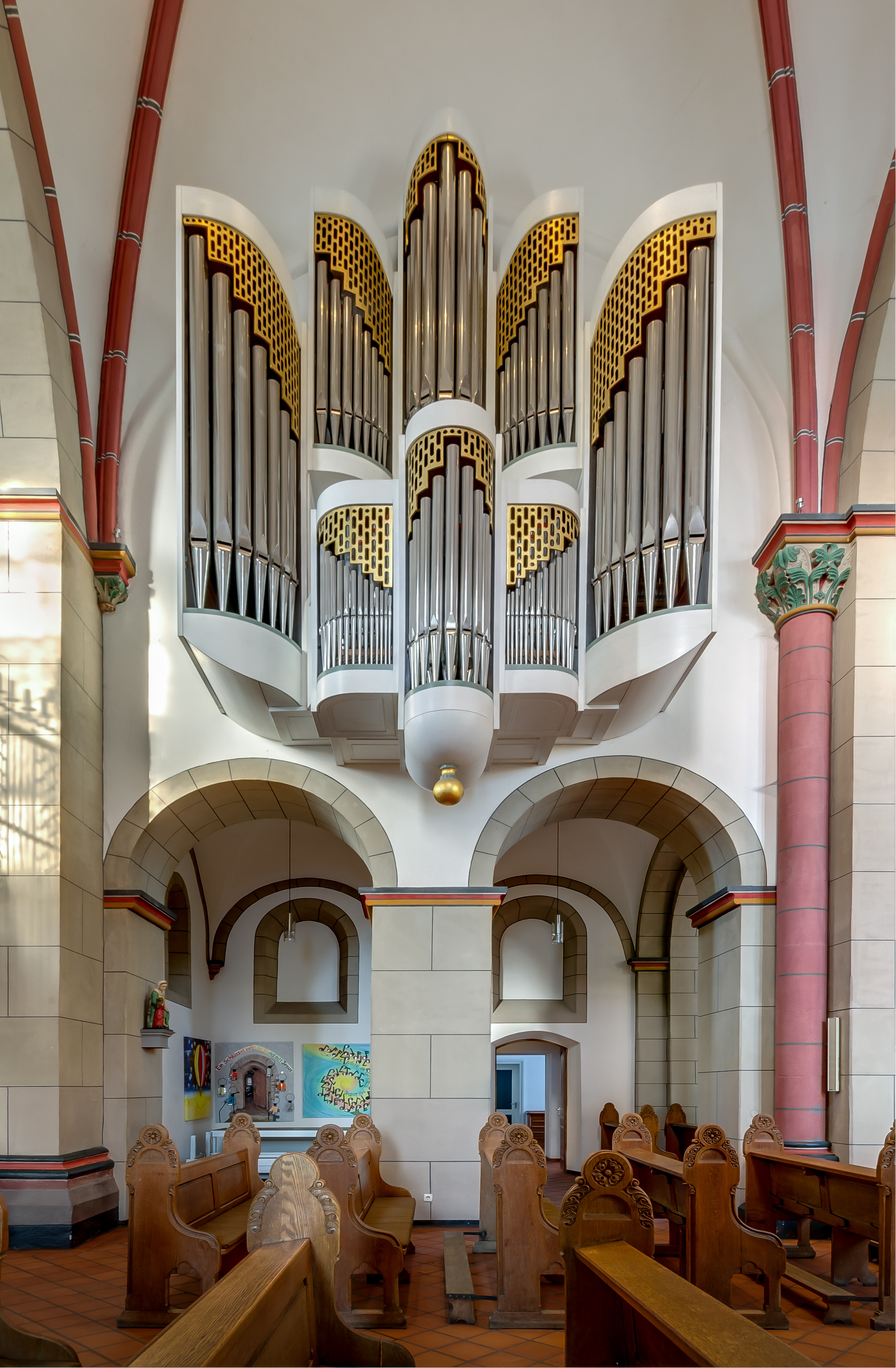 Organ of church of abbey Saarn